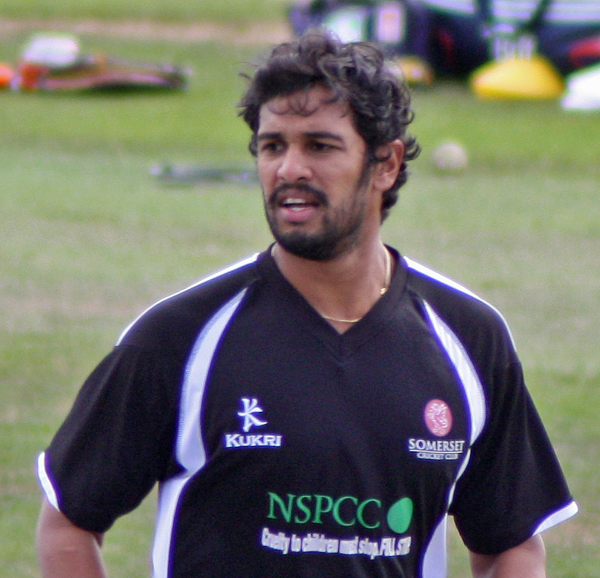 Arul Suppiah warming up for Somerset prior to their Clydesdale Bank 40 semi-final against Durham at the County Ground, Taunton.